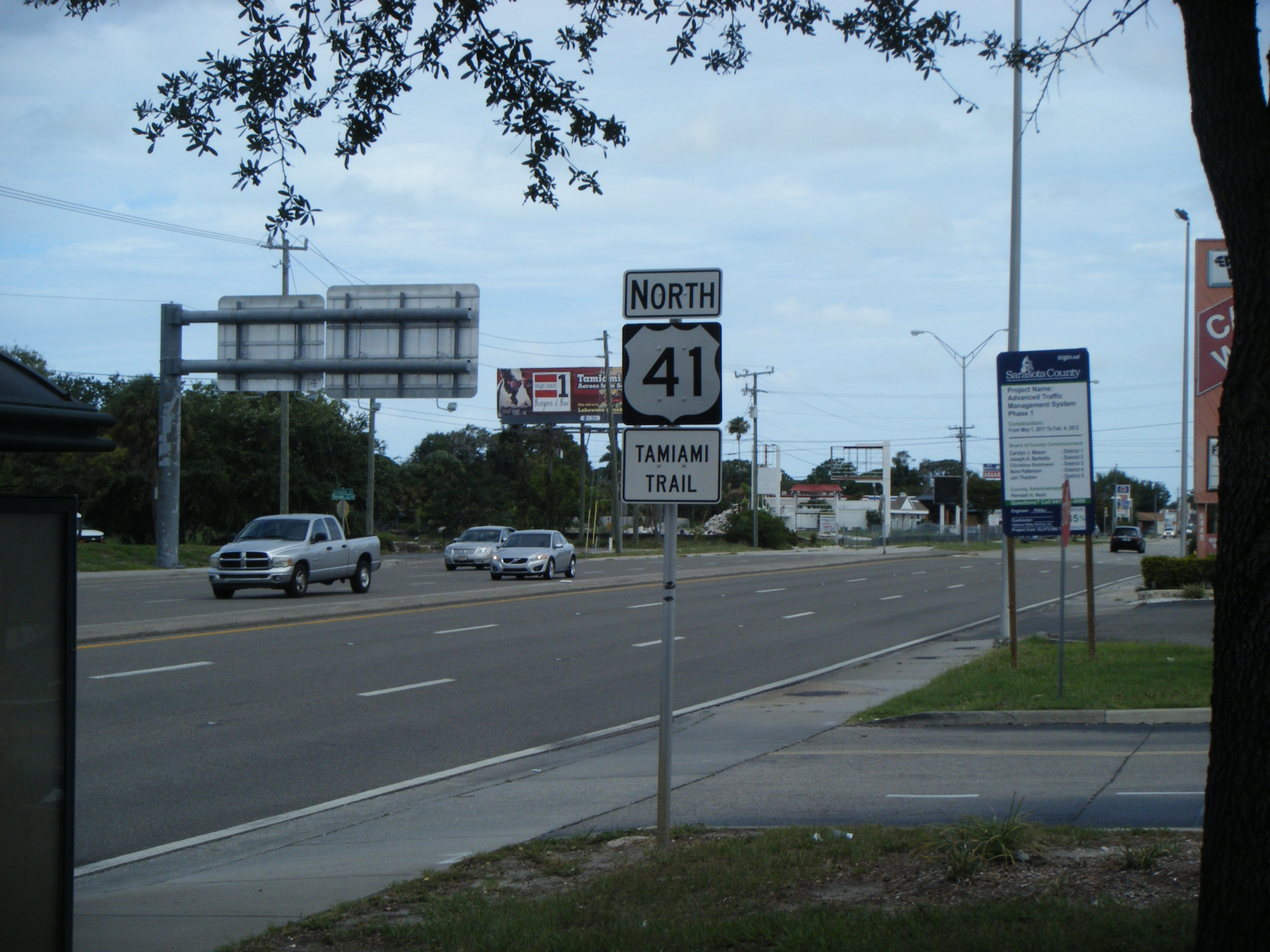 Shield for northbound U.S. Route 41 (Tamiami Trail) past the intersection with Florida State Road 72 (Stickney Point Road) in Gulf Gate Estates